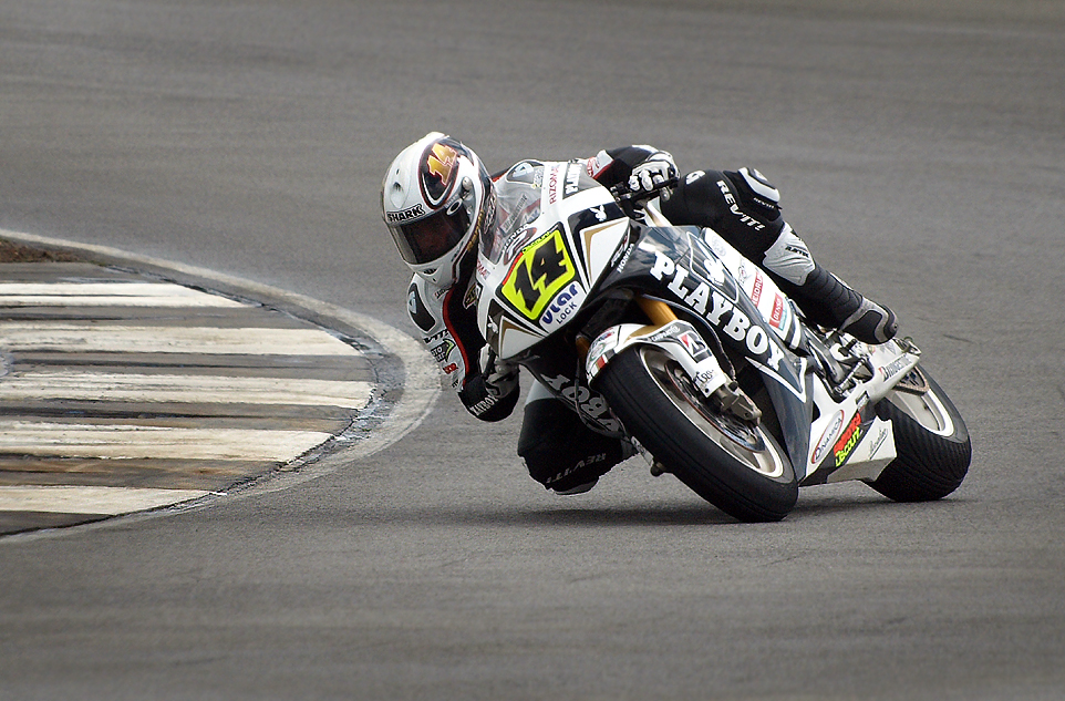 Randy de Puniet, riding his LCR Honda at the 2009 British Grand Prix.